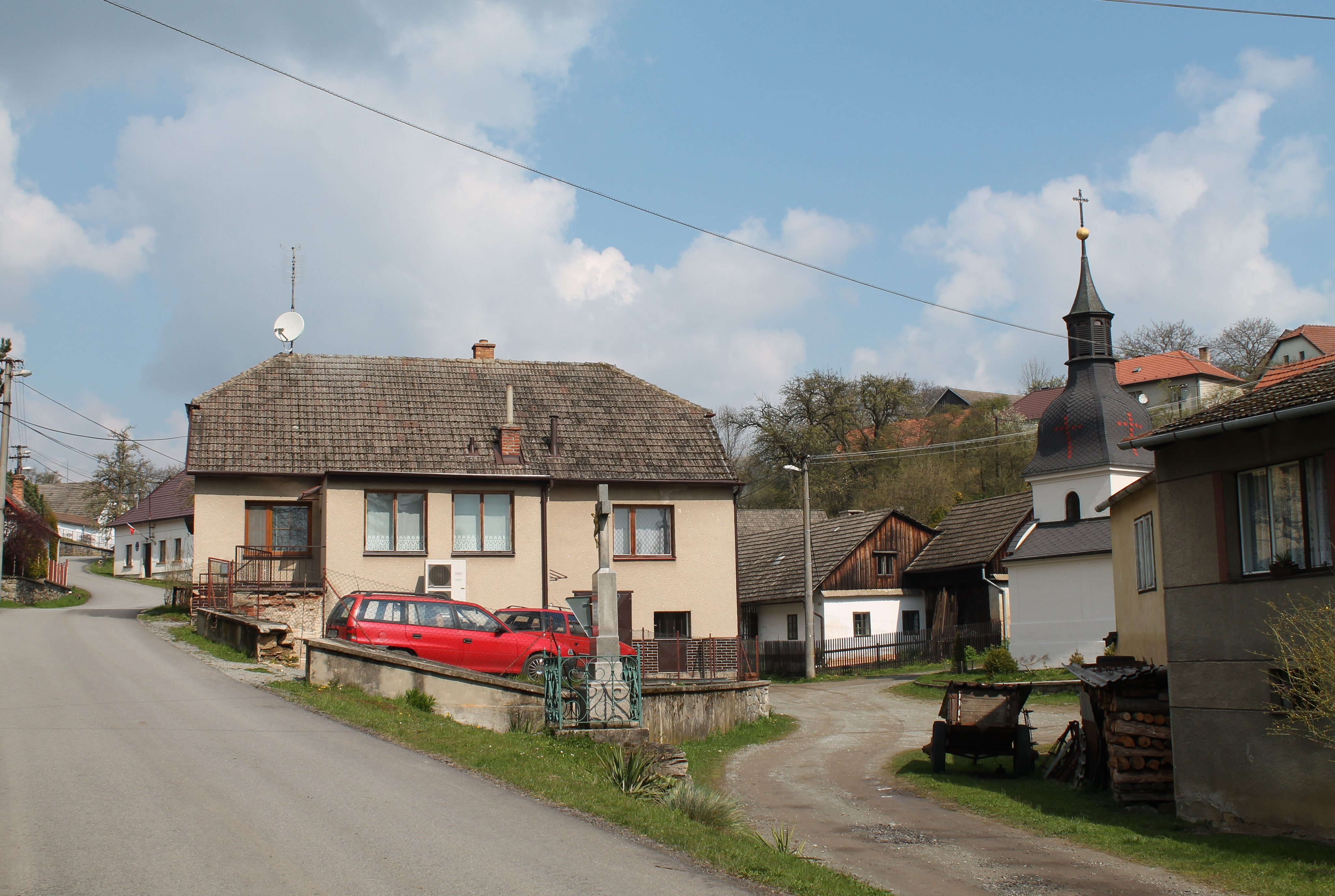 Makov, Blansko District, Czech Republic This photograph was taken during a group photography field trip by Brno Wikipedians: 2017-04-29.